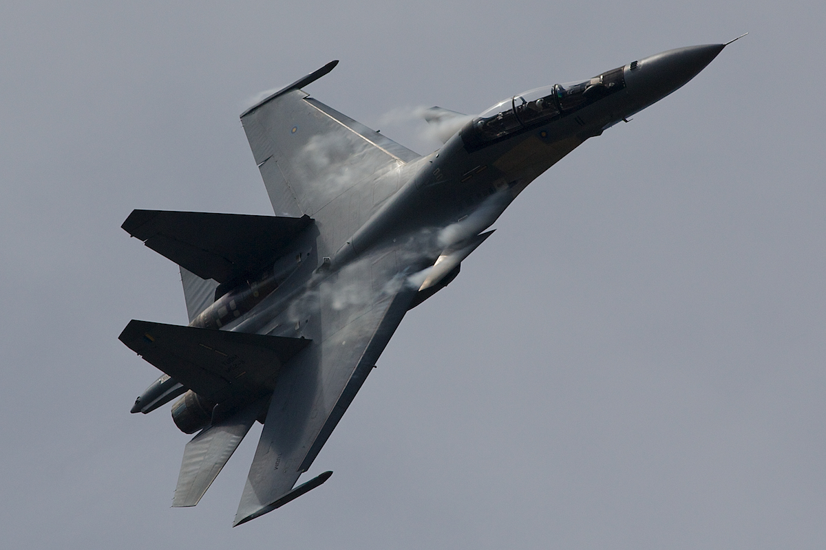 Su30mkm flying at lima 8